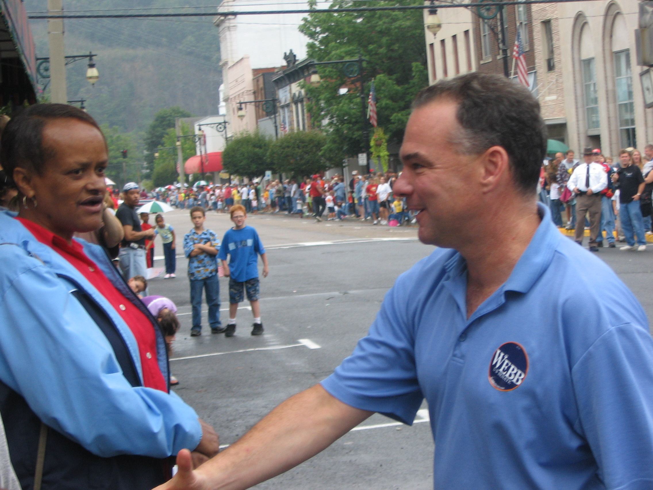 Virginia Gov. Tim Kaine at the Buena Vista Labor Day Parade. Notice that he is wearing a sticker supporting Jim Webb's senatorial campaign.